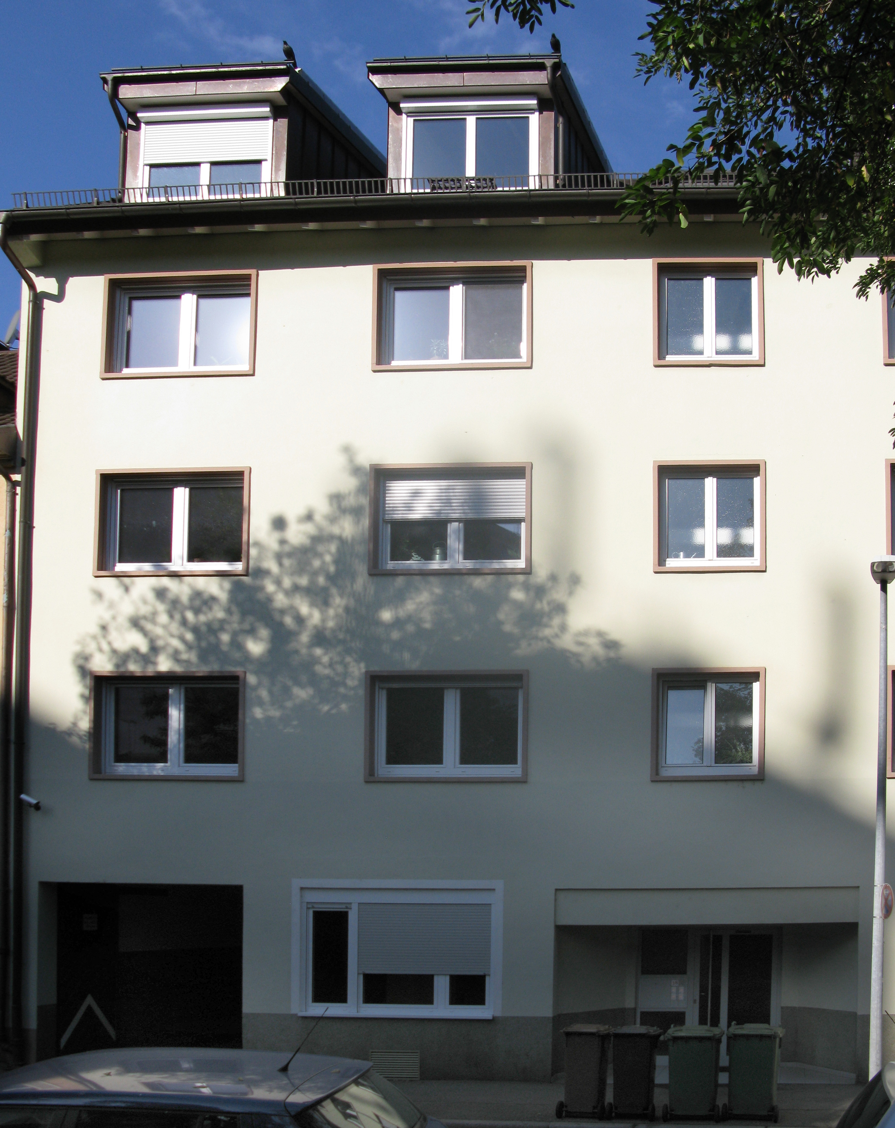 Audiobuch publishing house in Freiburg